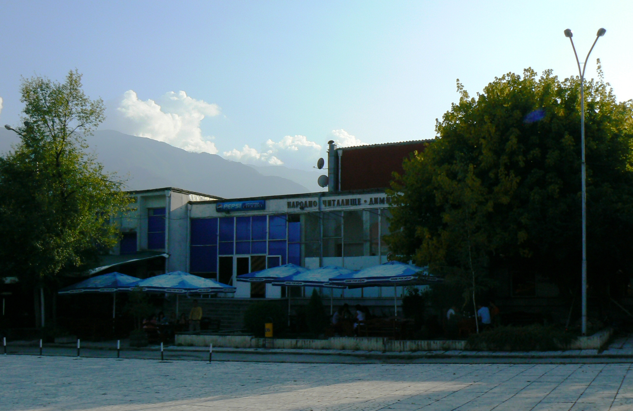 Library "Dimitar Blagoev" in Parvomay village, Blagoevgrad District, Bulgaria